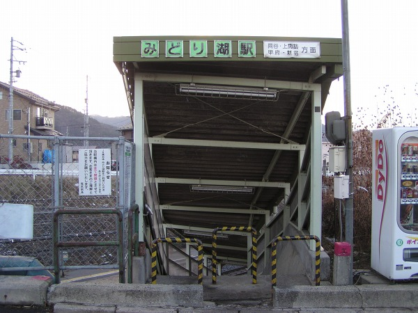 Midoriko Station in Shiojiri, Nagano Prefecture, Japan